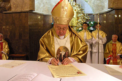 Photo bishop Adam Smigielski